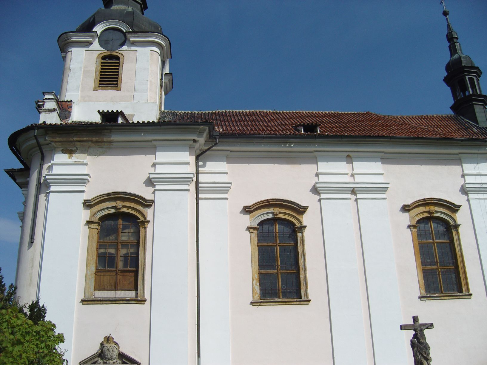 Cítoliby (Czech Republic), church of the Saint Jacob the Greater